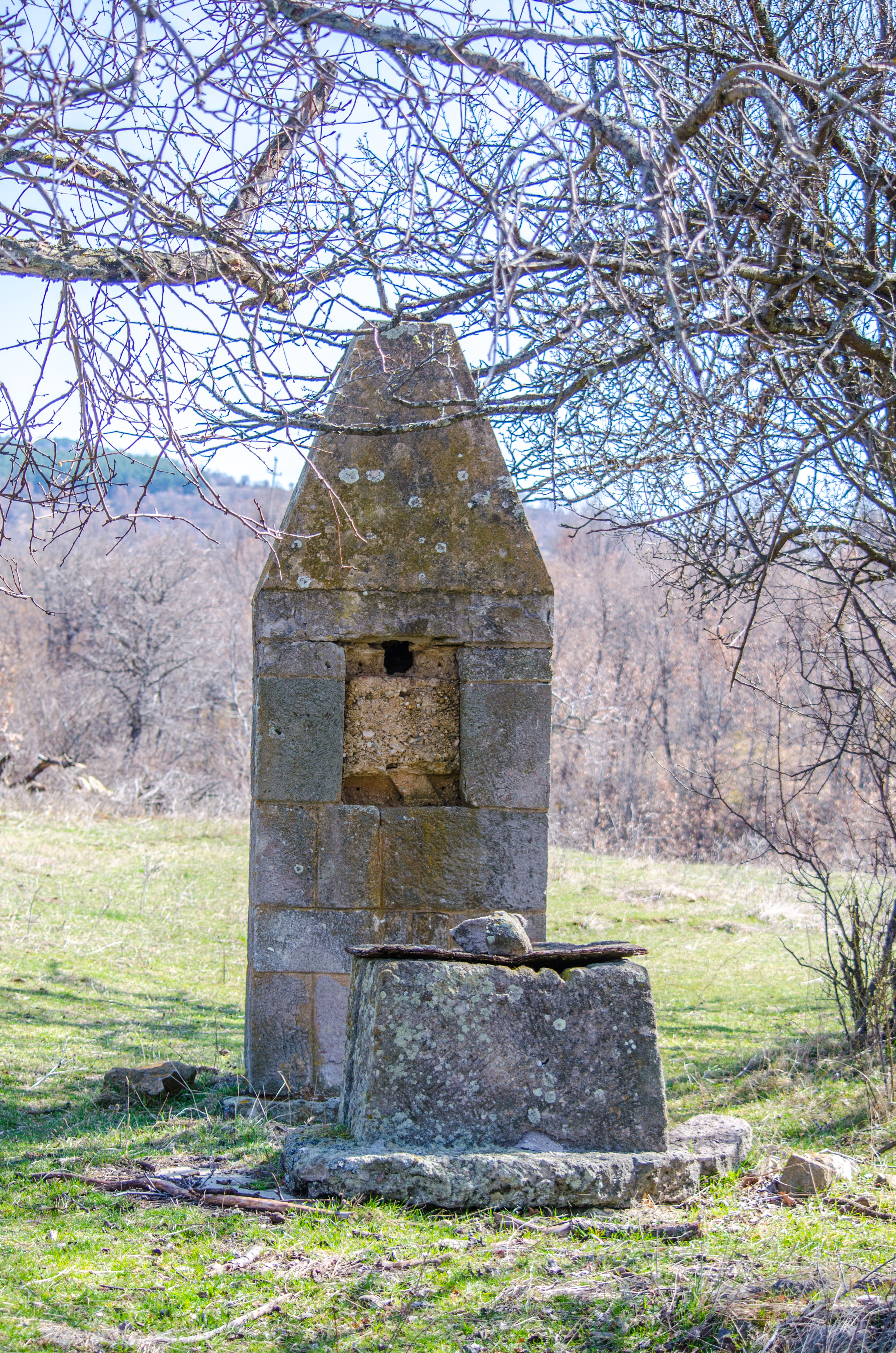 Monument in Žegljane, Staro Nagoricane